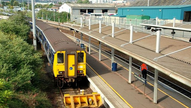 Great Victoria Street station, Belfast (6) See 1261548. The view from the Boyne Bridge with one of the ageing 450/Castle class sets stabled (out of service) at platform 1 (left). Continue to 1489073.